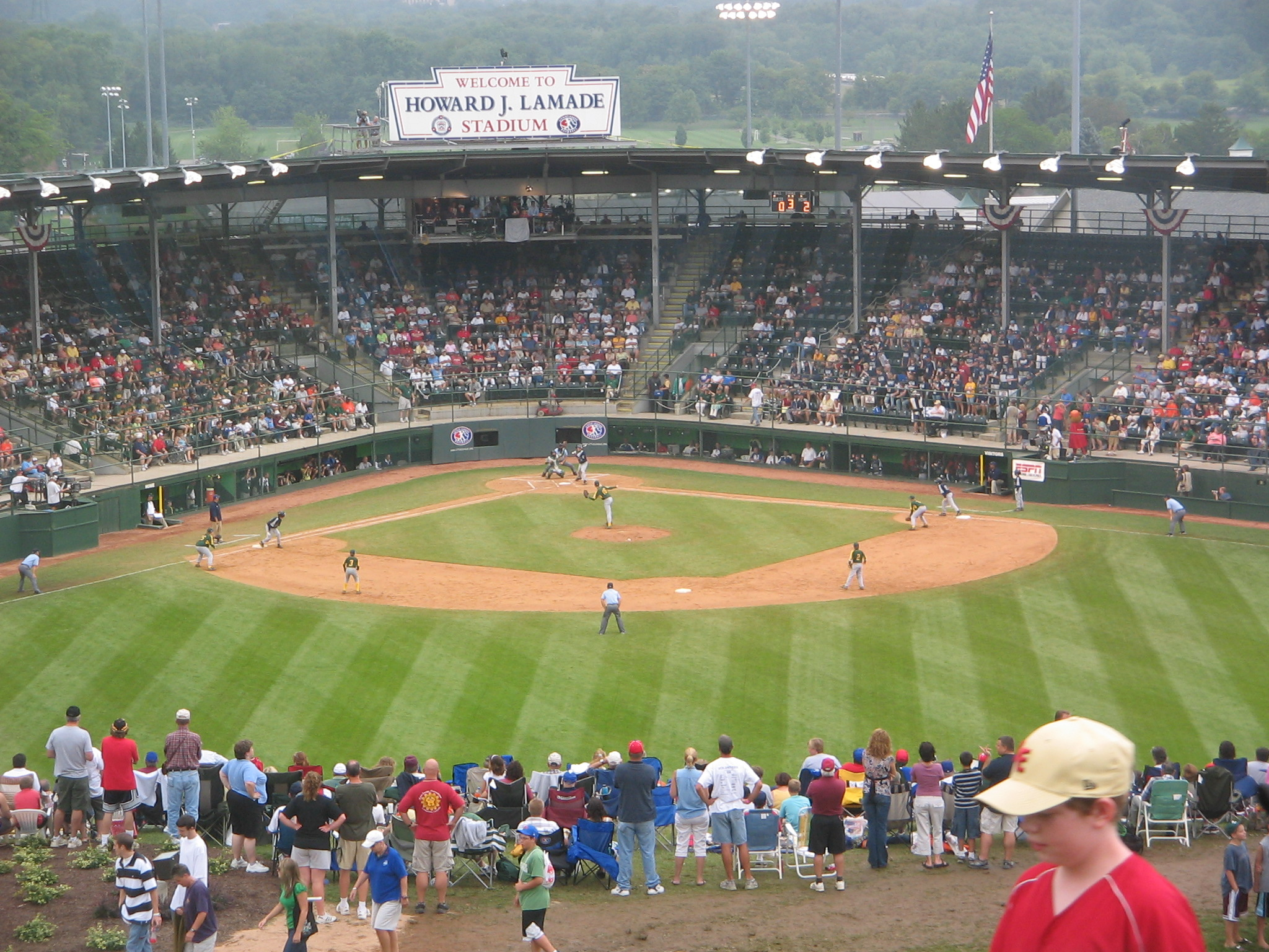 Little League World Series Game in Howard J. Lamade Stadium during the 2007 Little League World Series in South Williamsport, Lycoming County, Pennsylvania, USA